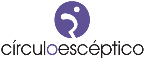 Logo of Círculo Escéptico, a Spanish skeptical organisation.